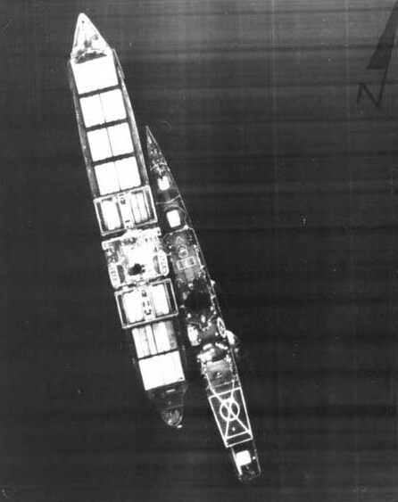 The U.S. Navy ocean escort USS Harold E. Holt (DE-1074) alongside the SS Mayaguez off Koh Tang island, Cambodia, on 15 May 1975, during the Mayaguez incident.